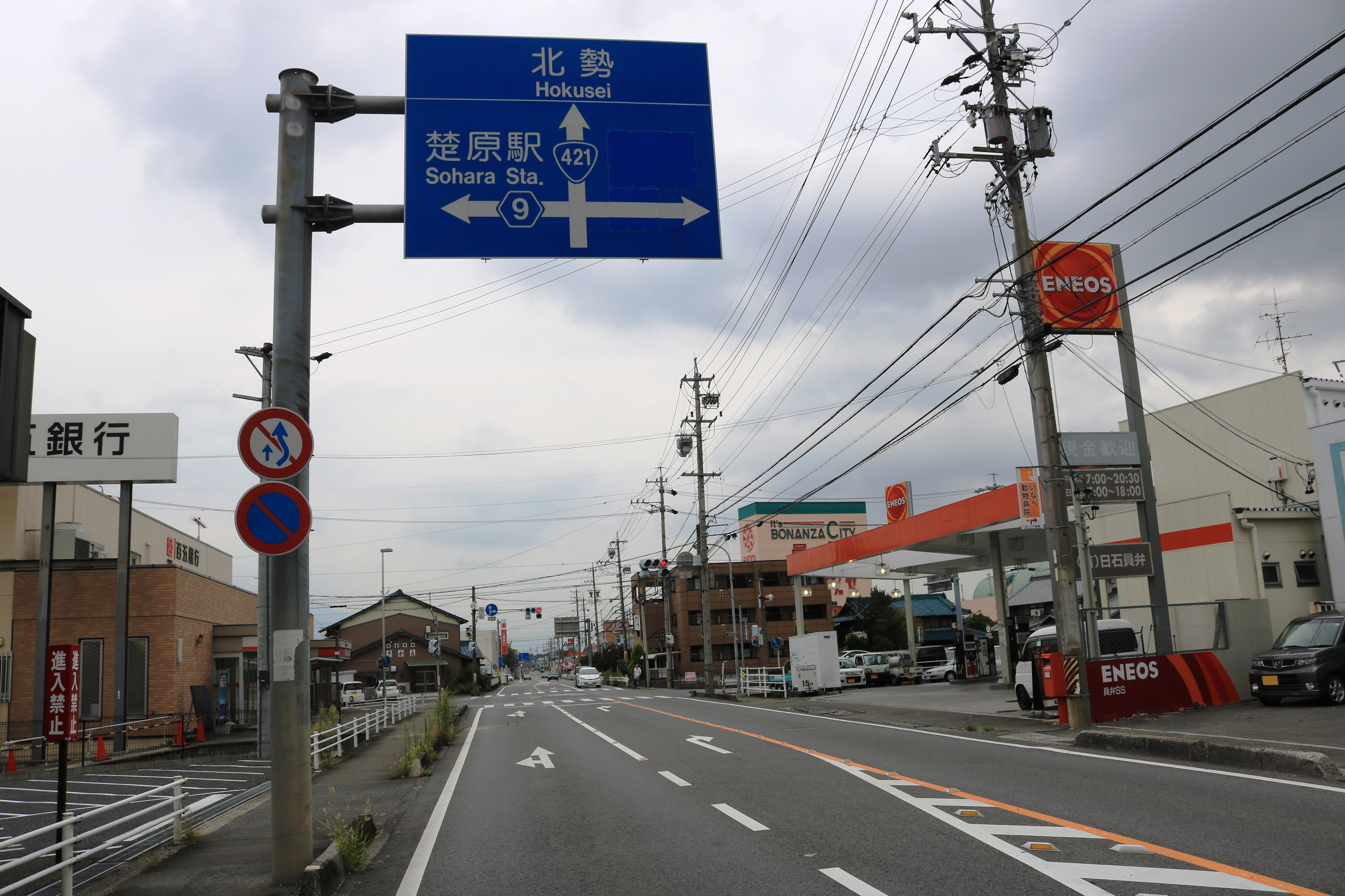 Route 421 in Ishibotoke, Inabecho, Inabe, Mie prefecture, Japan.